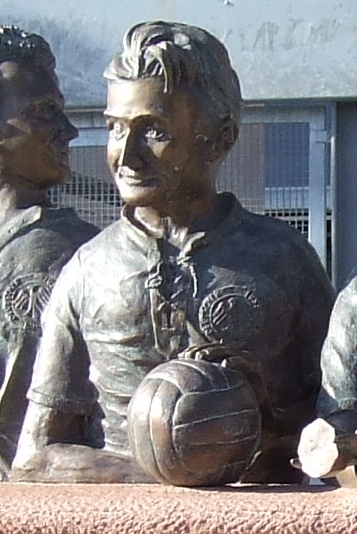 Statue of Fritz Walter in front of the Fritz-Walter-Stadion, Kaiserslautern, Germany.